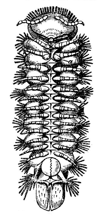 Ventral view of Polyxenus lagurus much enlarged, actual length a little over 1/12th of an inch. a, Position of generative openings.